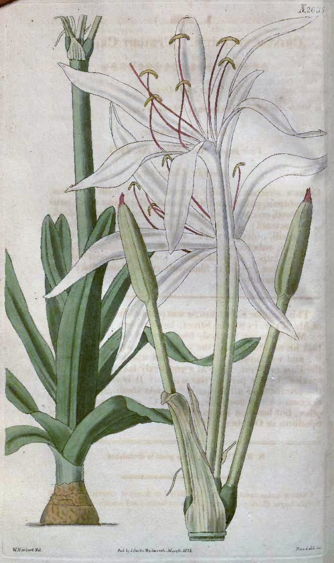 Crinum americanum